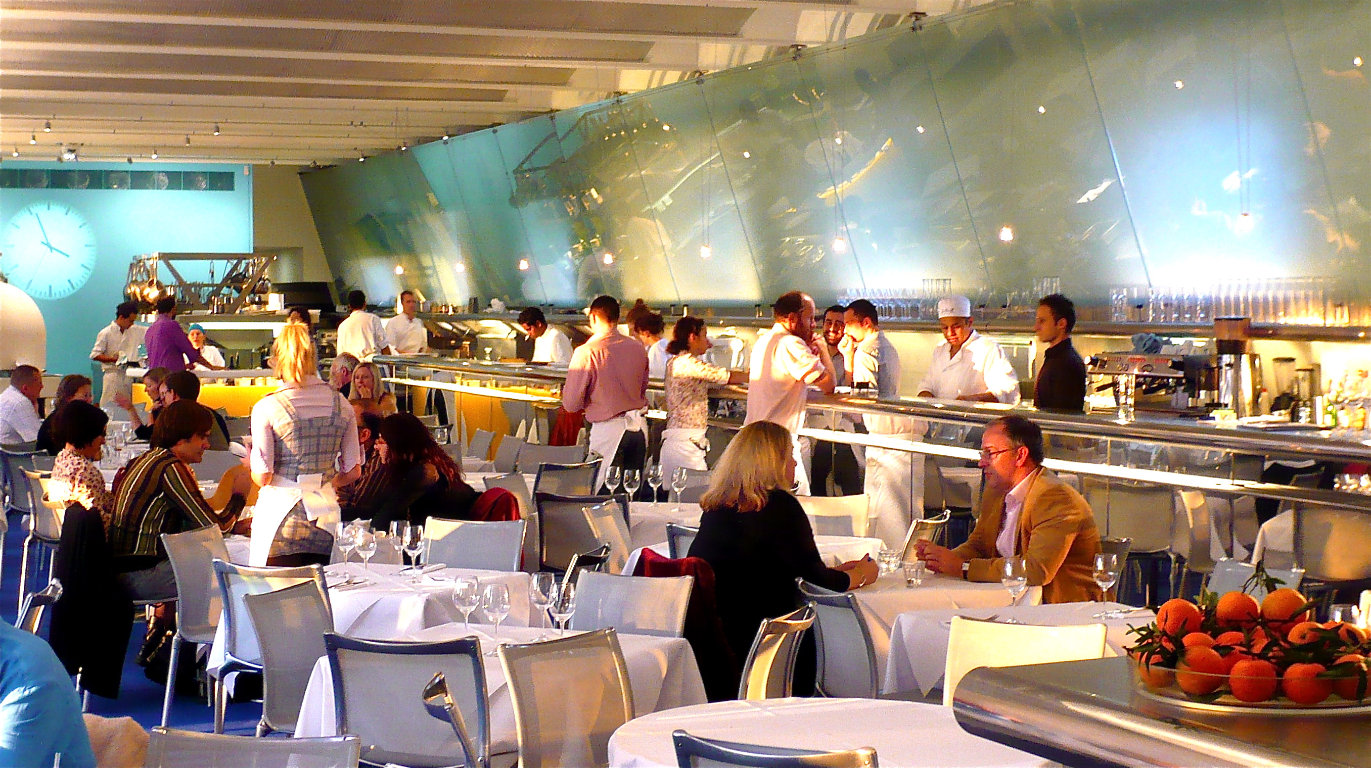 Inside the River Cafe, London